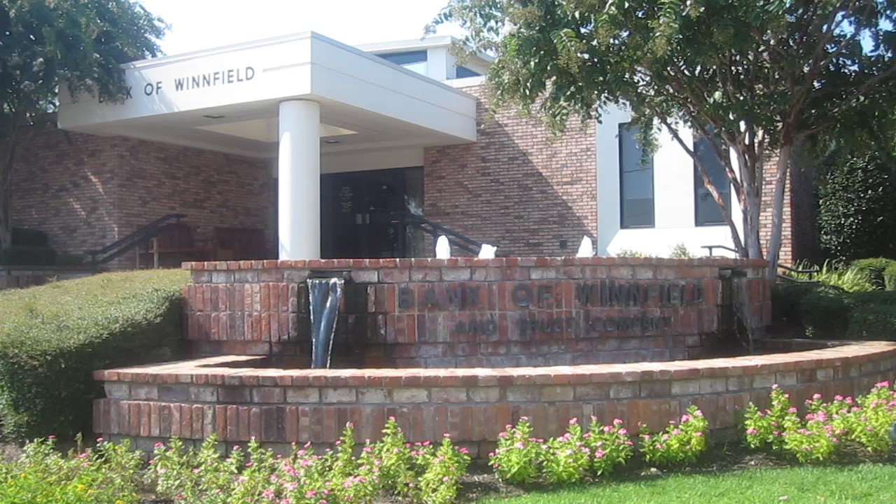 Bank of Winnfield, LA